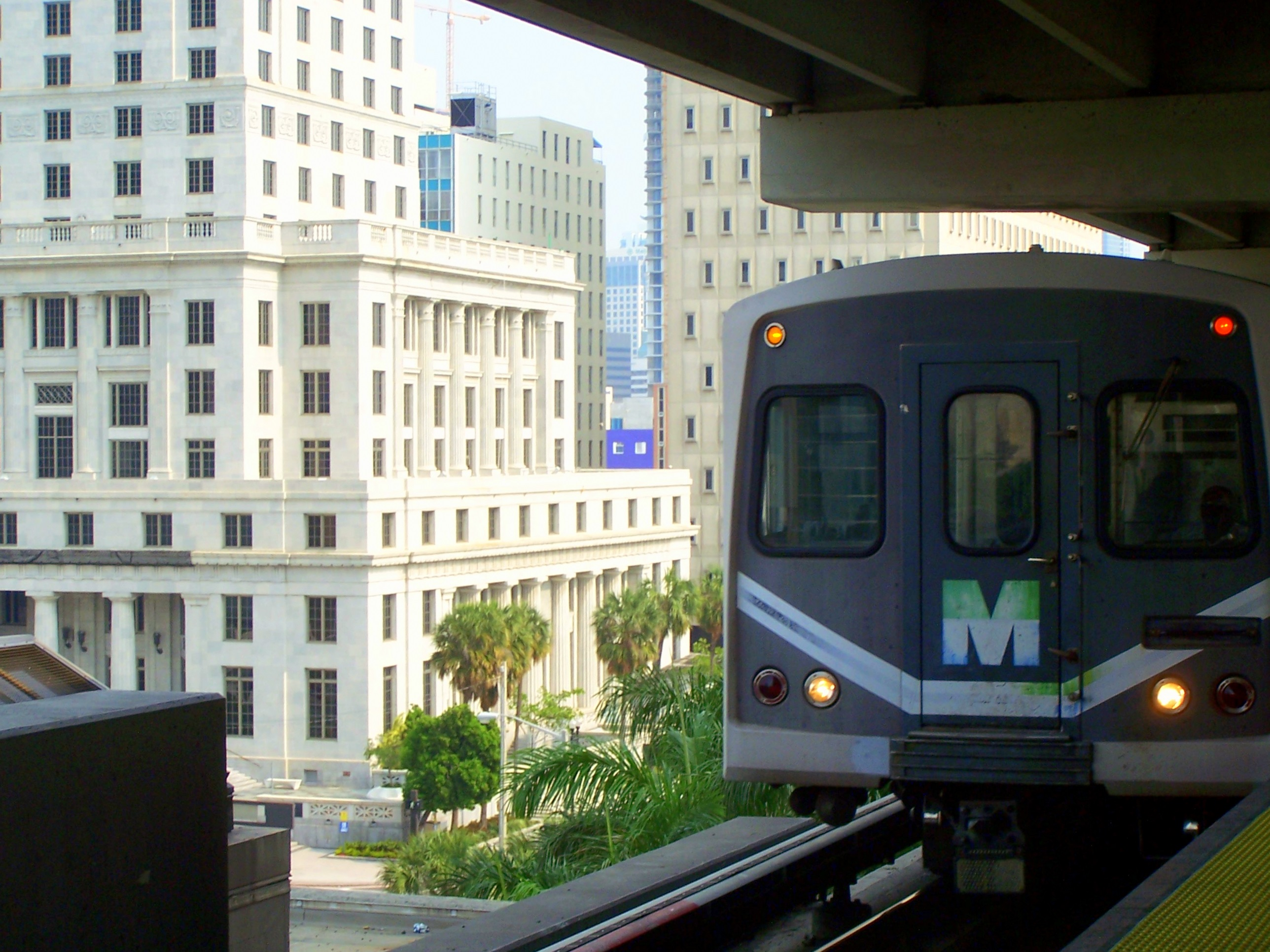 Miami metrorail from Government Center station. Photo taken by myself on May 13, 2007.